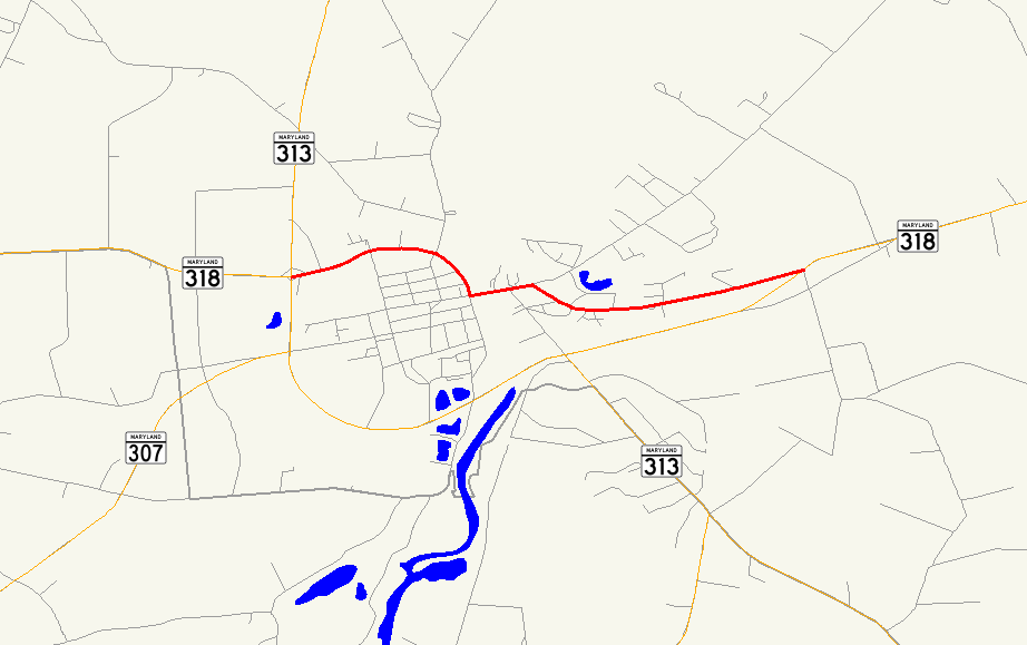 Map of Maryland Route 315